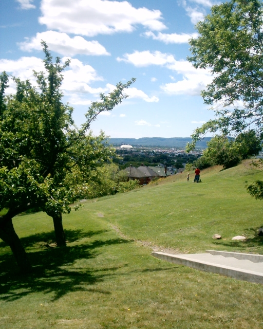 The view of Fort William from Hillcrest Park, in Thunder Bay, Ontario.